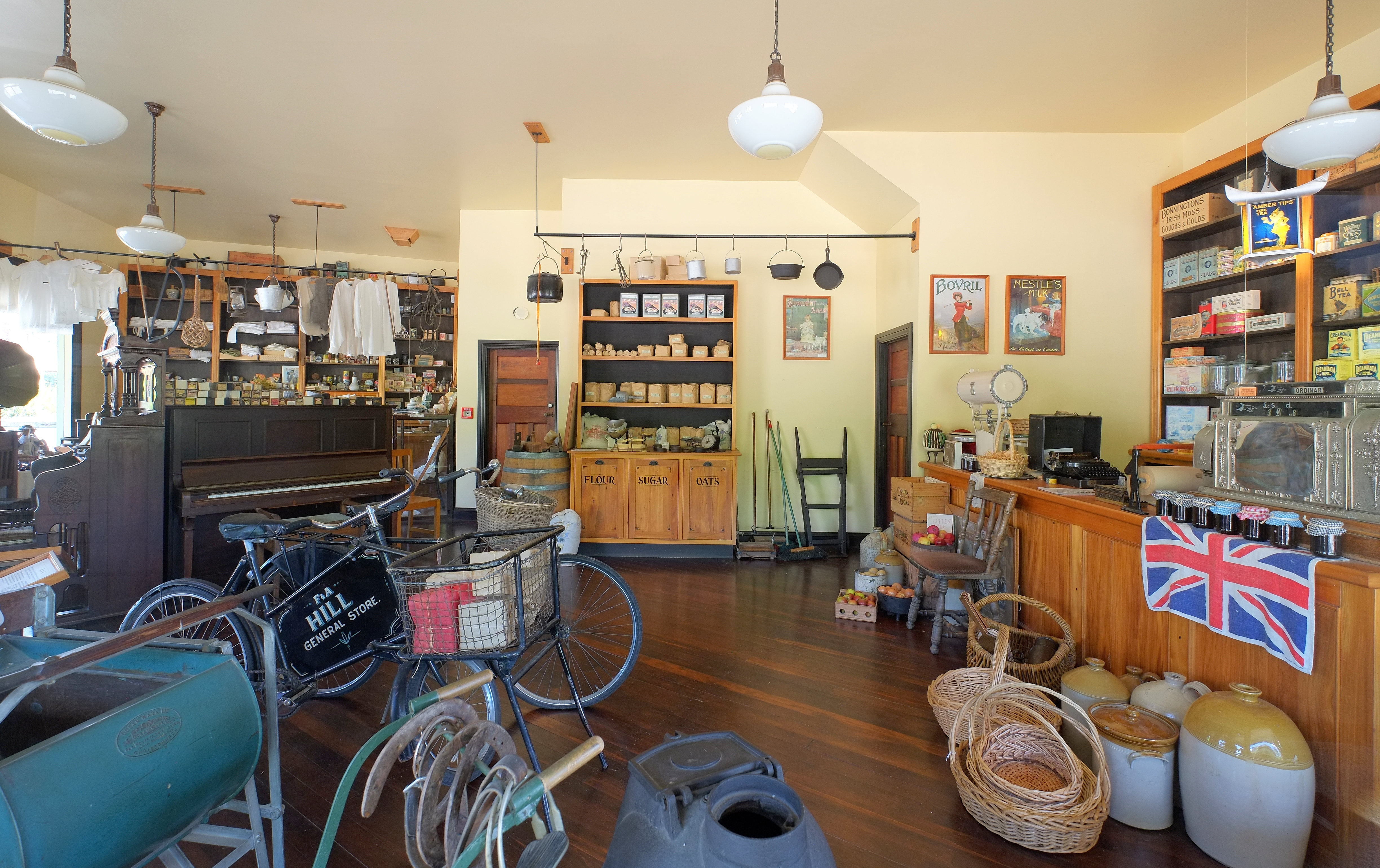 Inside F & A Hill general store at Ferrymead Heritage Park - the store is filled with items from the early 20th century